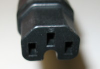 IEC 60320 C15 connector